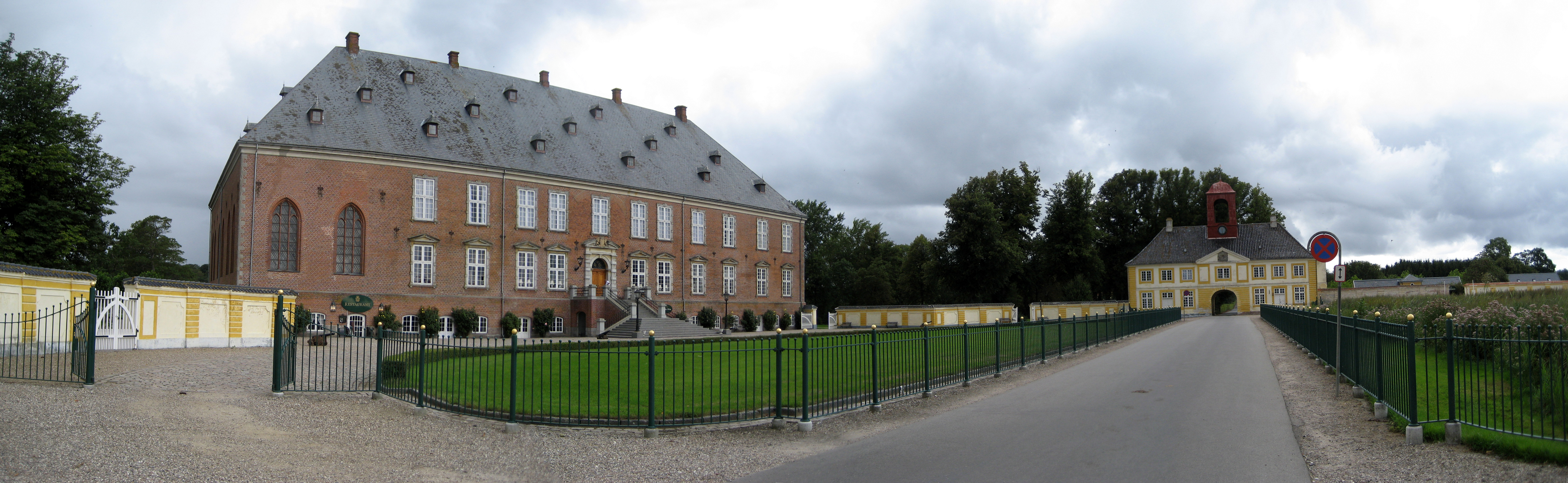 Valdemars Castle